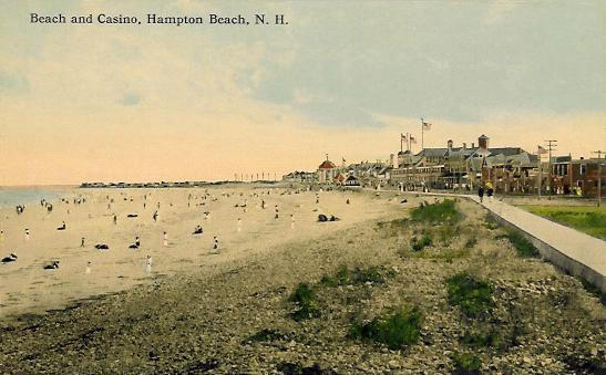 Beachwalk, Beach and Casino, Hampton Beach, NH; from a c. 1910 postcard.